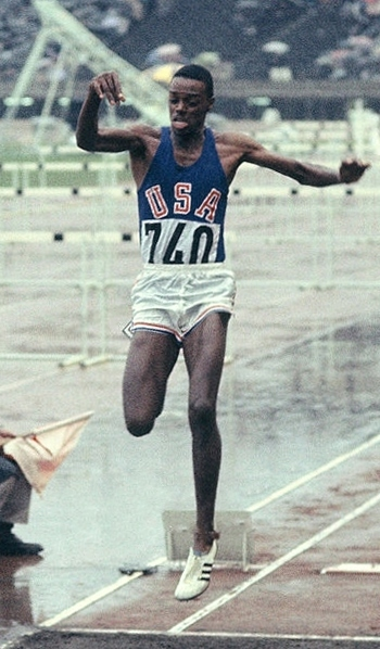 Ralph Boston, 1964 Olympics